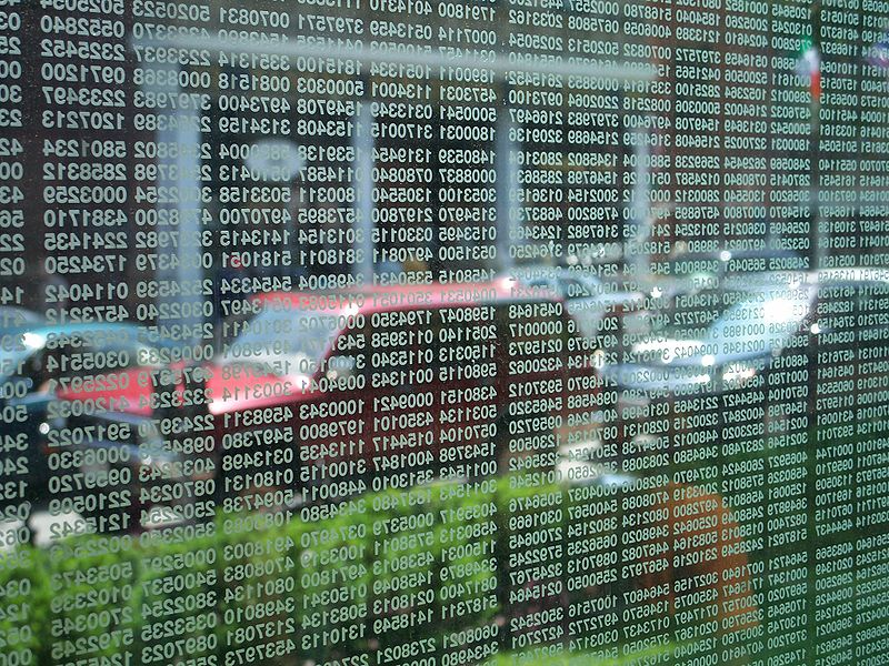 Numbers inside the New England Holocaust Memorial